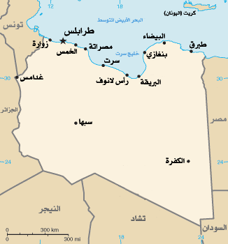 Map of Libya